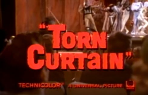 Torn Curtain title